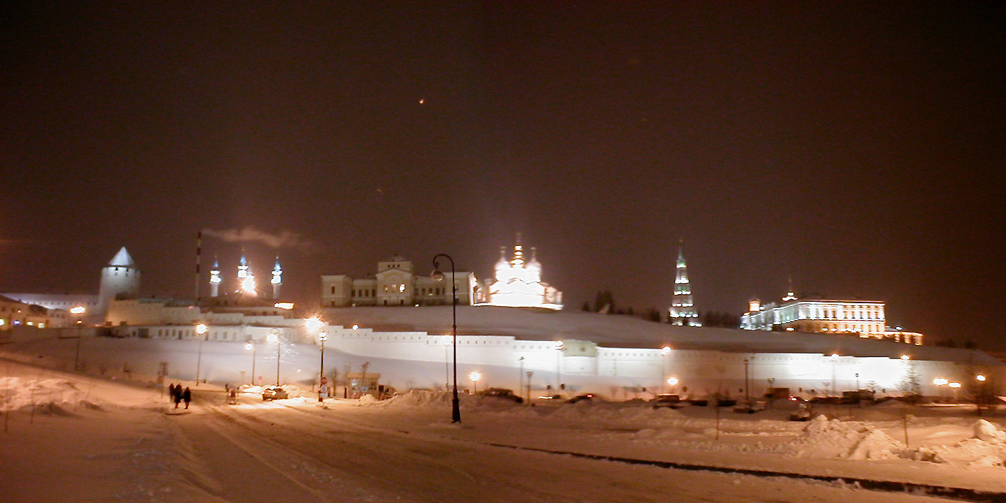 Palace square in Kazan, view on Kazan Kremlin at winter night